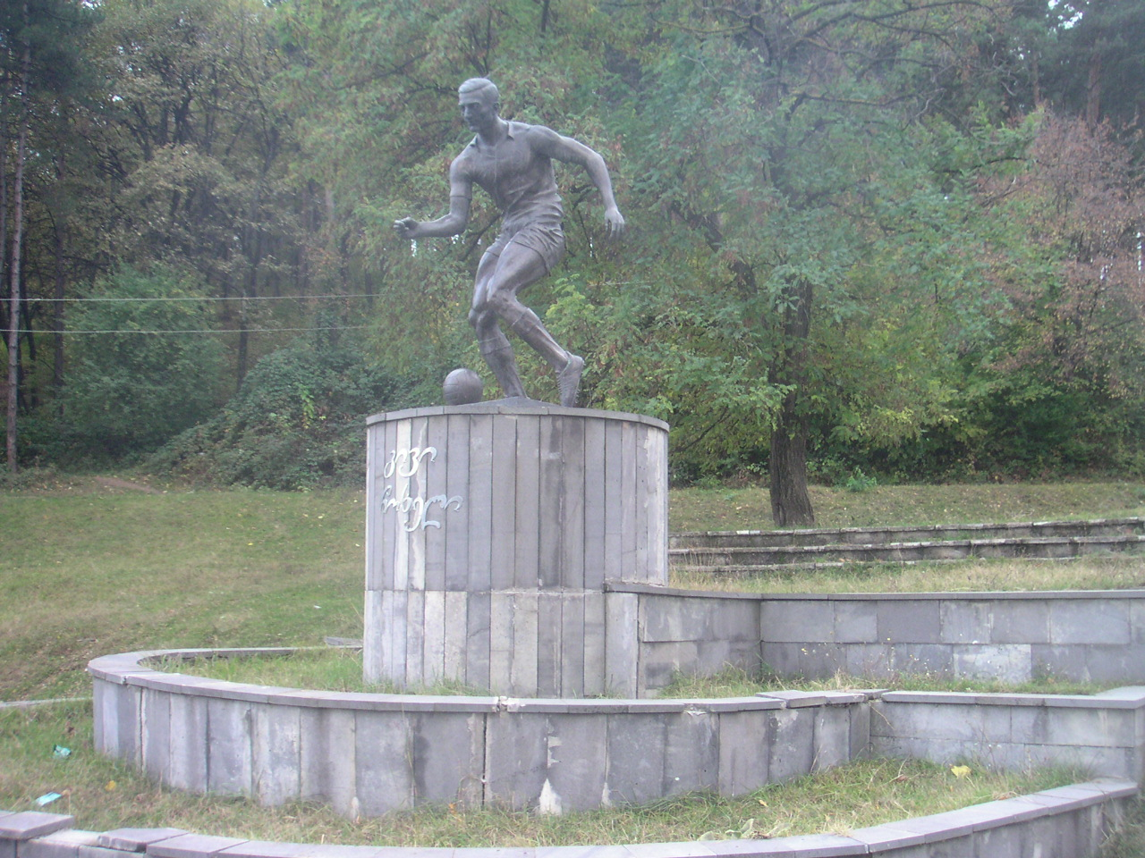 The statute of Georgian soccer player Givo Chokheli in front of Municipal Stadium in Telavi, Georgia